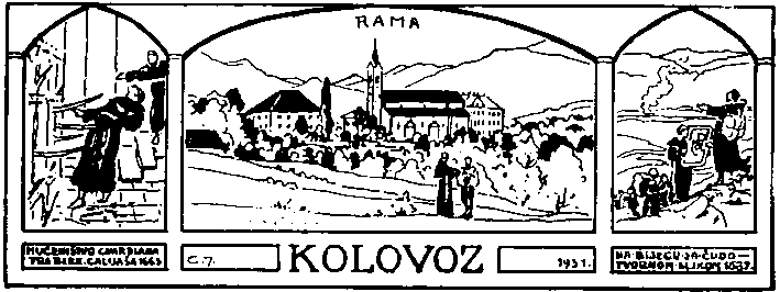 Croatian Catholic calendar in Bosnia and Herzegovina, 1930. Rama